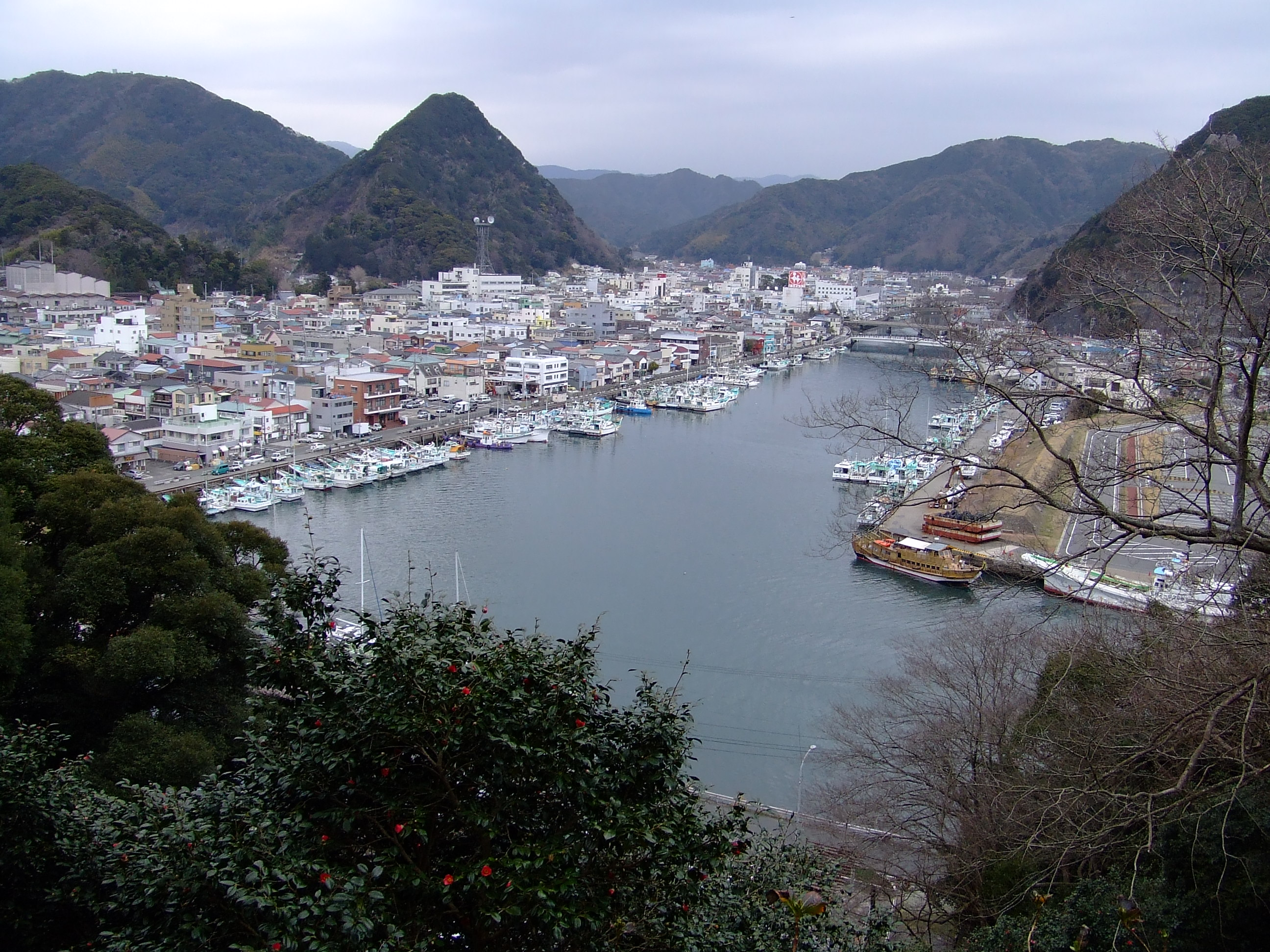 Shimoda, Shizuoka Prefecture, Japan, viewed from Shimodajo Park. I took this photo with a digital camera on 24th February 2007.